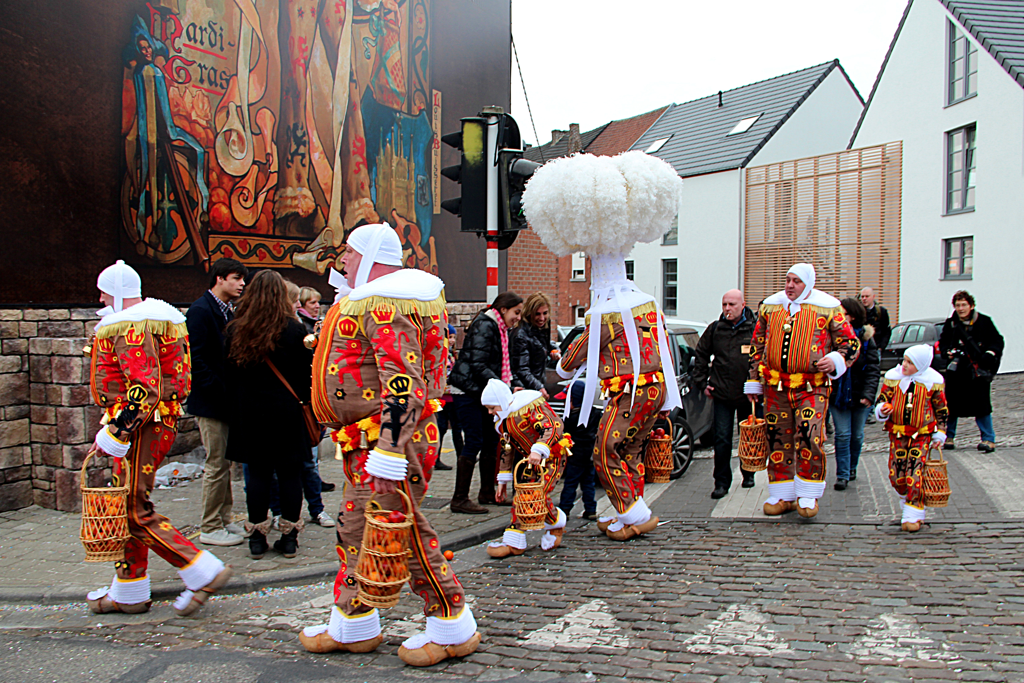 Binche, group of Gilles going to the Grand'Place.